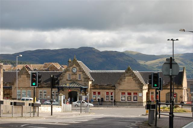 Stirling Railway Station There have been several railway stations in Stirling since 1848, this one has been here since 1916.